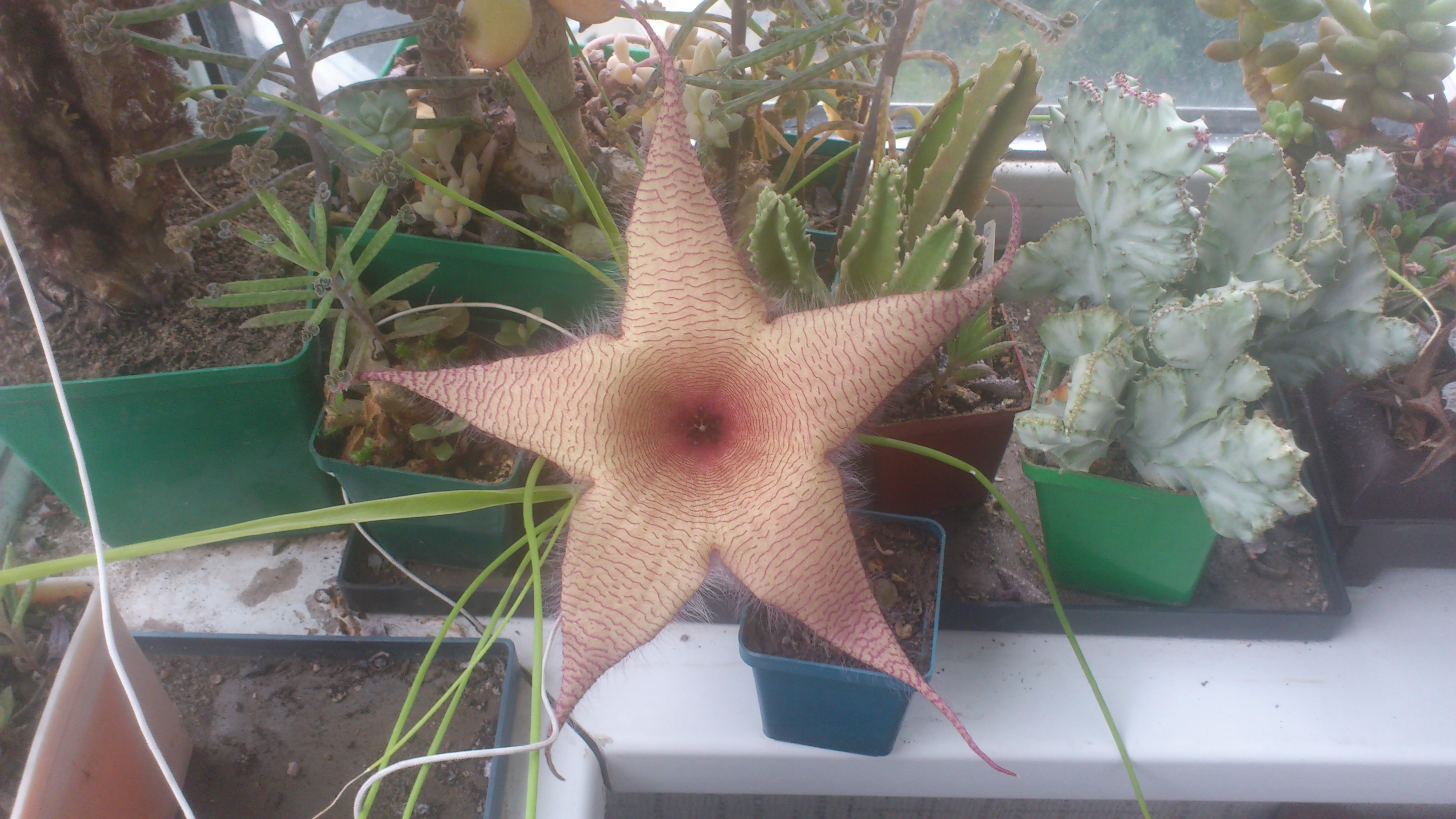 Stapelia gigantea